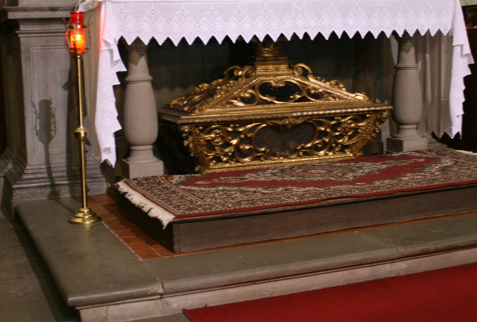 Relic Saint Onorio, arrived on XVII century at Santa Maria al Giglio in Montevarchi from the catacombs of Rome